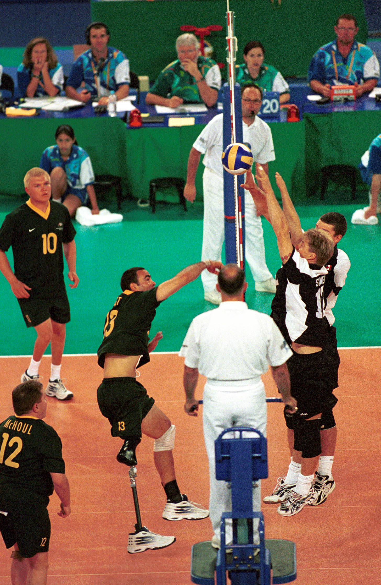 Australian standing volleyball player Grant Prest spikes the ball during 2000 Sydney Paralympic Games match